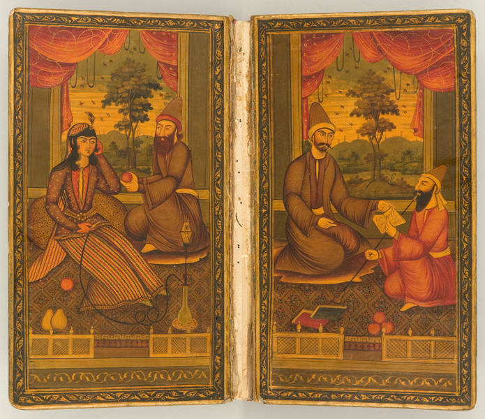 Doublures inside a Divan of Hafiz, April 5 1842, Iran. "...oil painted with a lacquer finish. The front doublure depicts Hafiz offering his work to a patron—so this is essentially an author’s portrait. The back doublure depicts a man offering a woman an orange, in an indoor setting similar to the first composition." See source for more information.